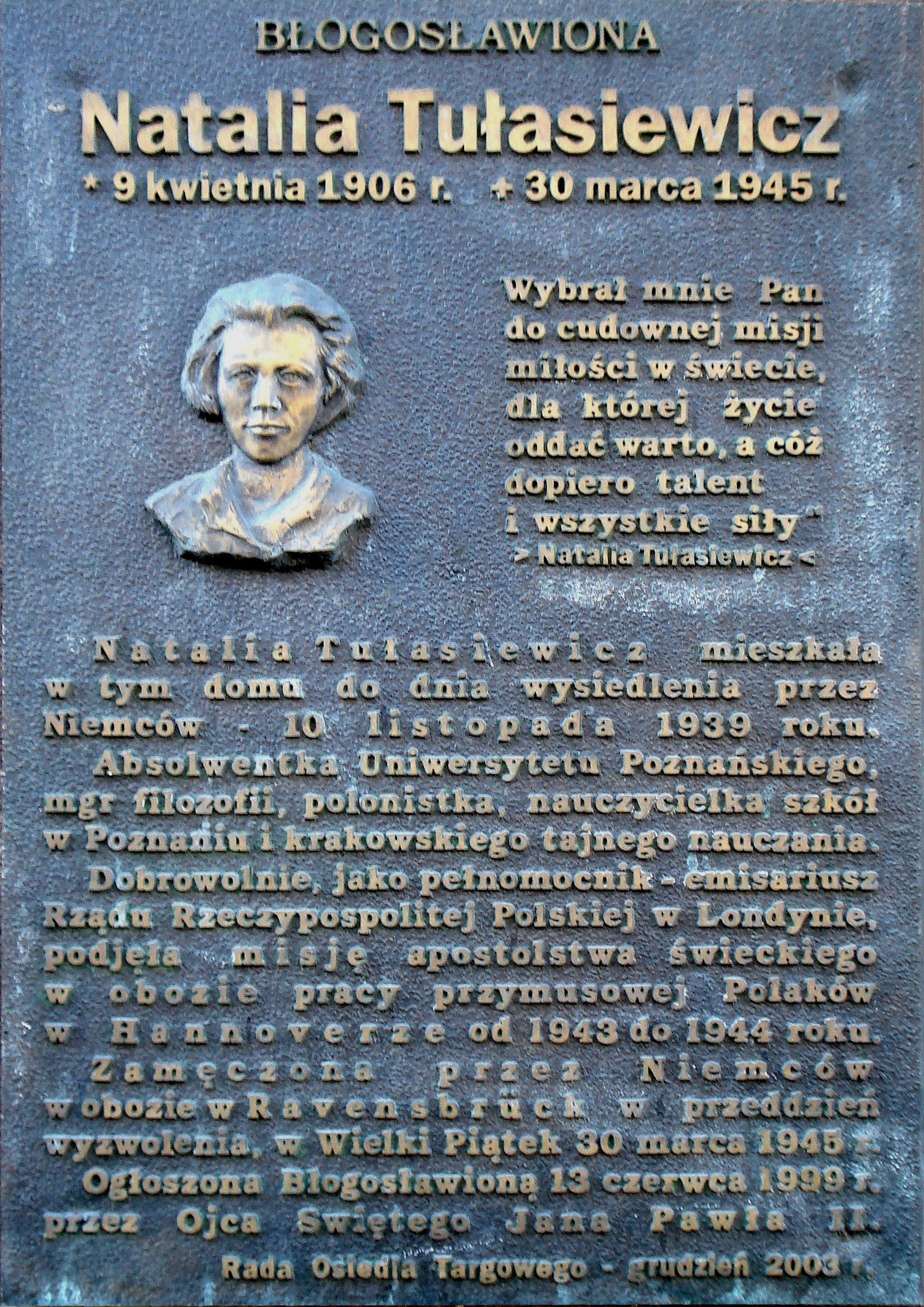 Memorial desk of Blessed Natalia Tułasiewicz in Poznań, Śniadeckich Street, 30